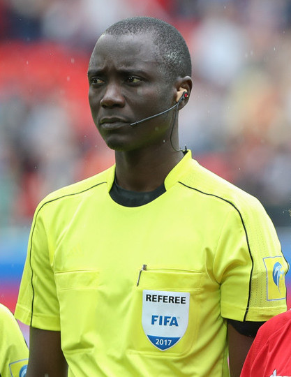 Portugal - Mexico, 2 Jul 2017